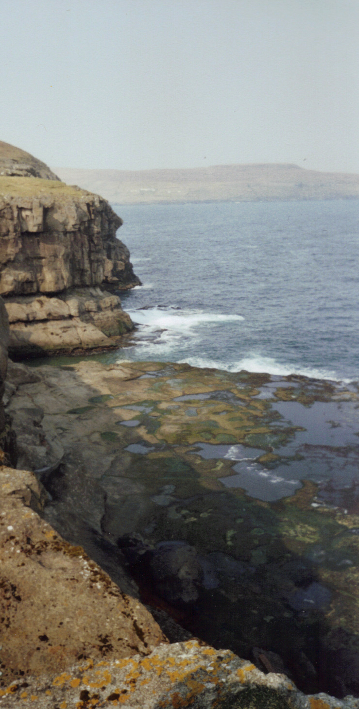 Medieval Viking meeting place "Tinghella", Eysturoy, Faroe Islands